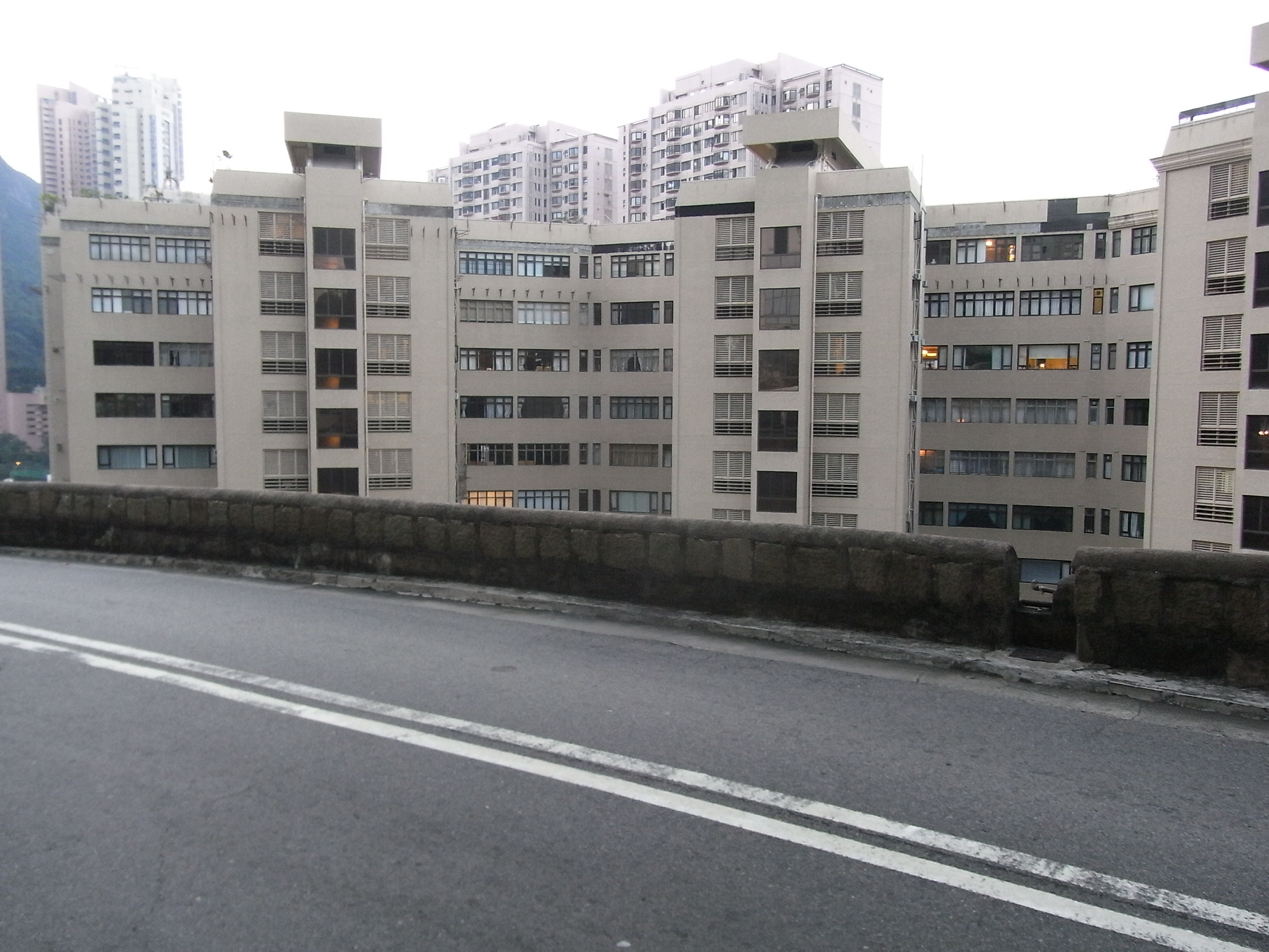 香港島太平山 半山區住宅